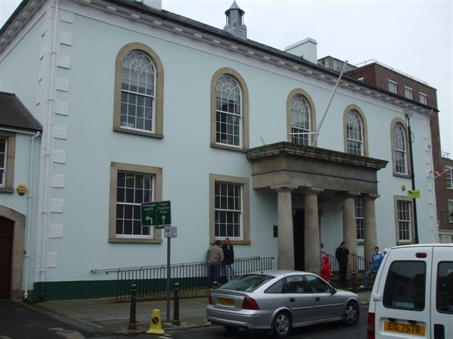 Enniskillen Courthouse It is located at East Bridge Street